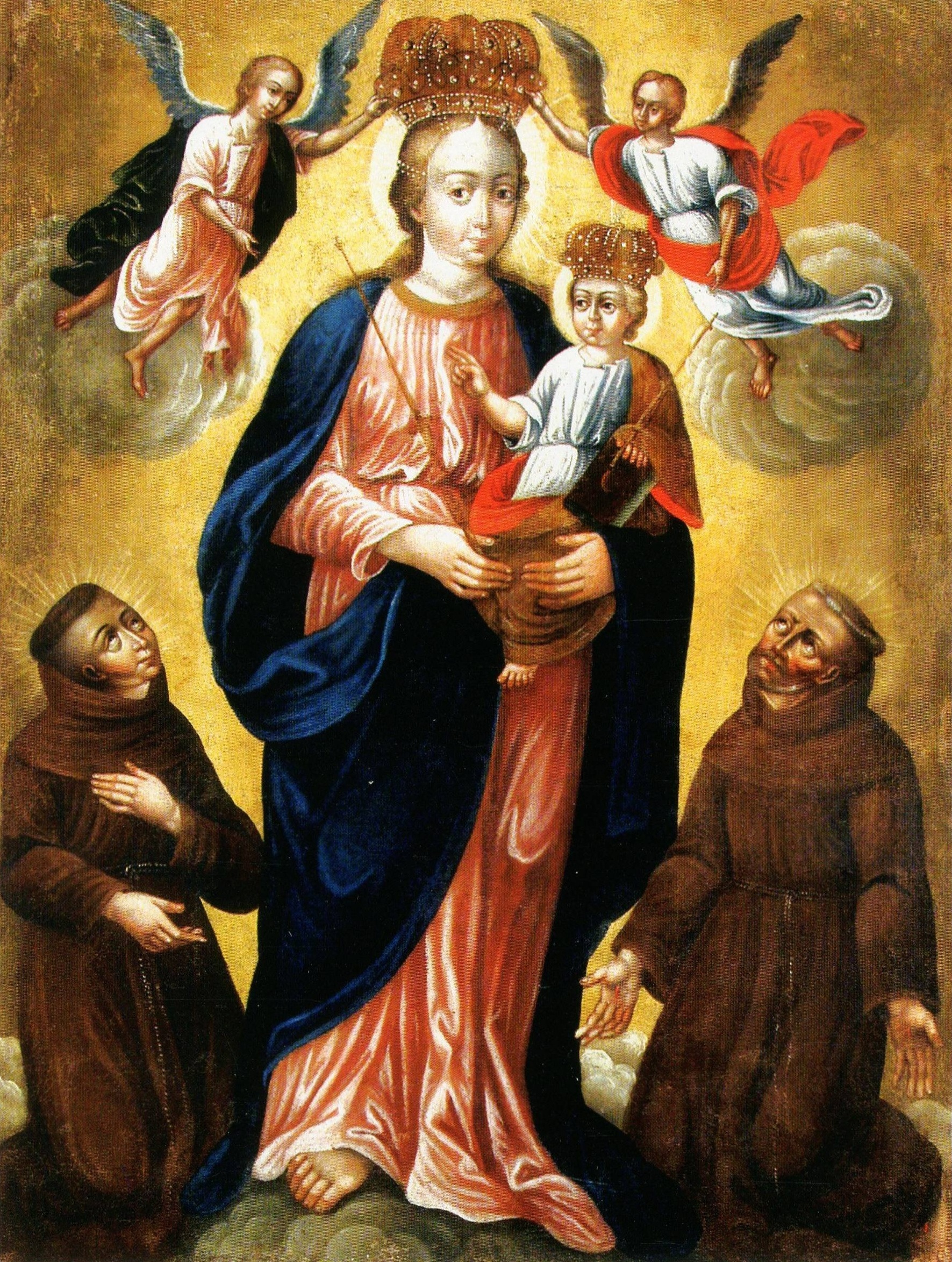 THE HOLY VIRGIN AND ST. FRANCISC OF ASSISI, BERNARD OF SIENA («MADONNA OF THE SAPIEHA»). Mid 18th c. Canvas, oil. St.Yuri's Church, Astrouki, Niasvizh district, Minsk region.